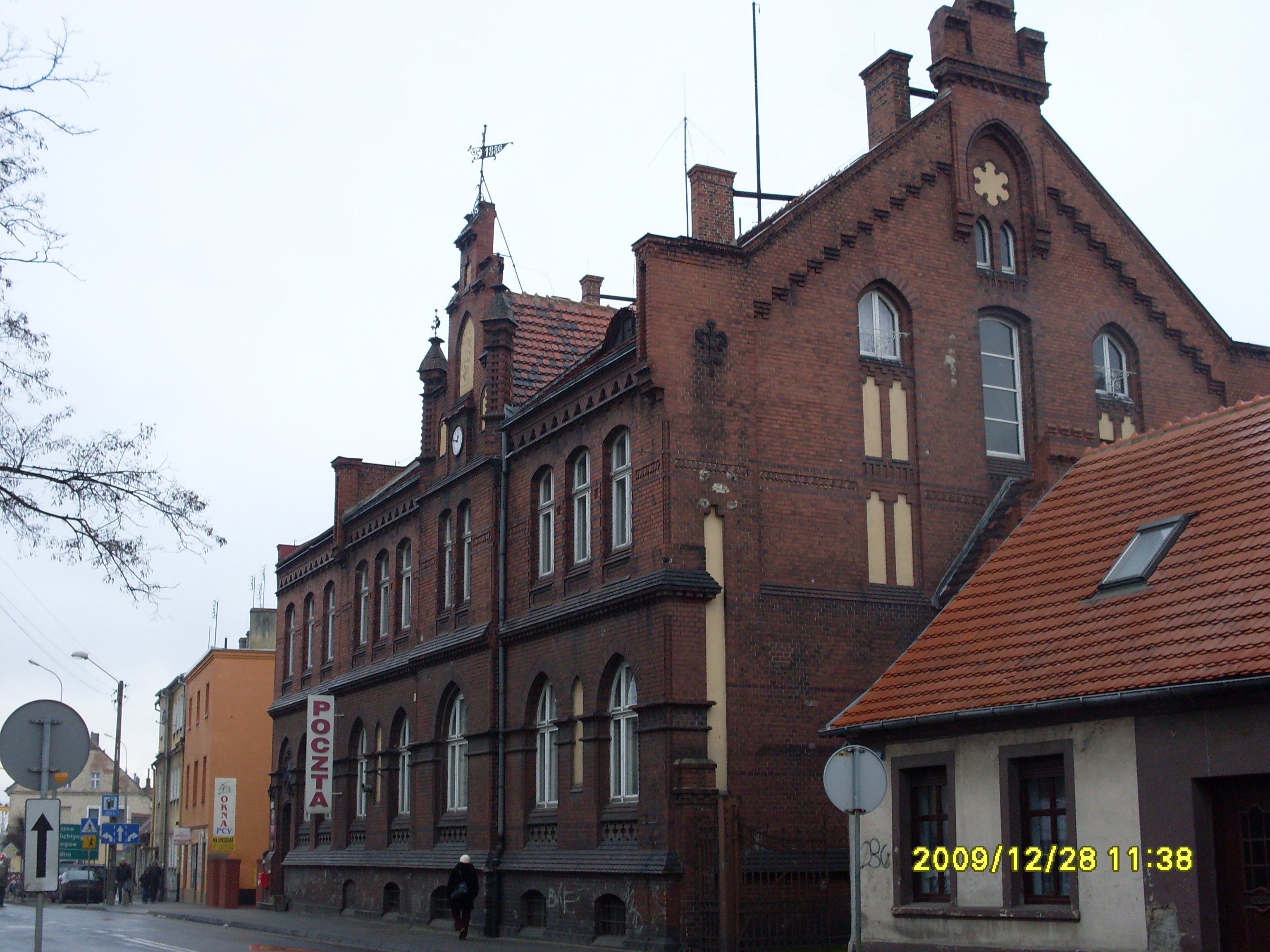 Post office in Góra